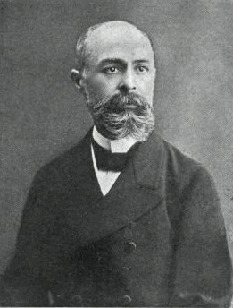 Picture of Henri Becquerel, the French physicist